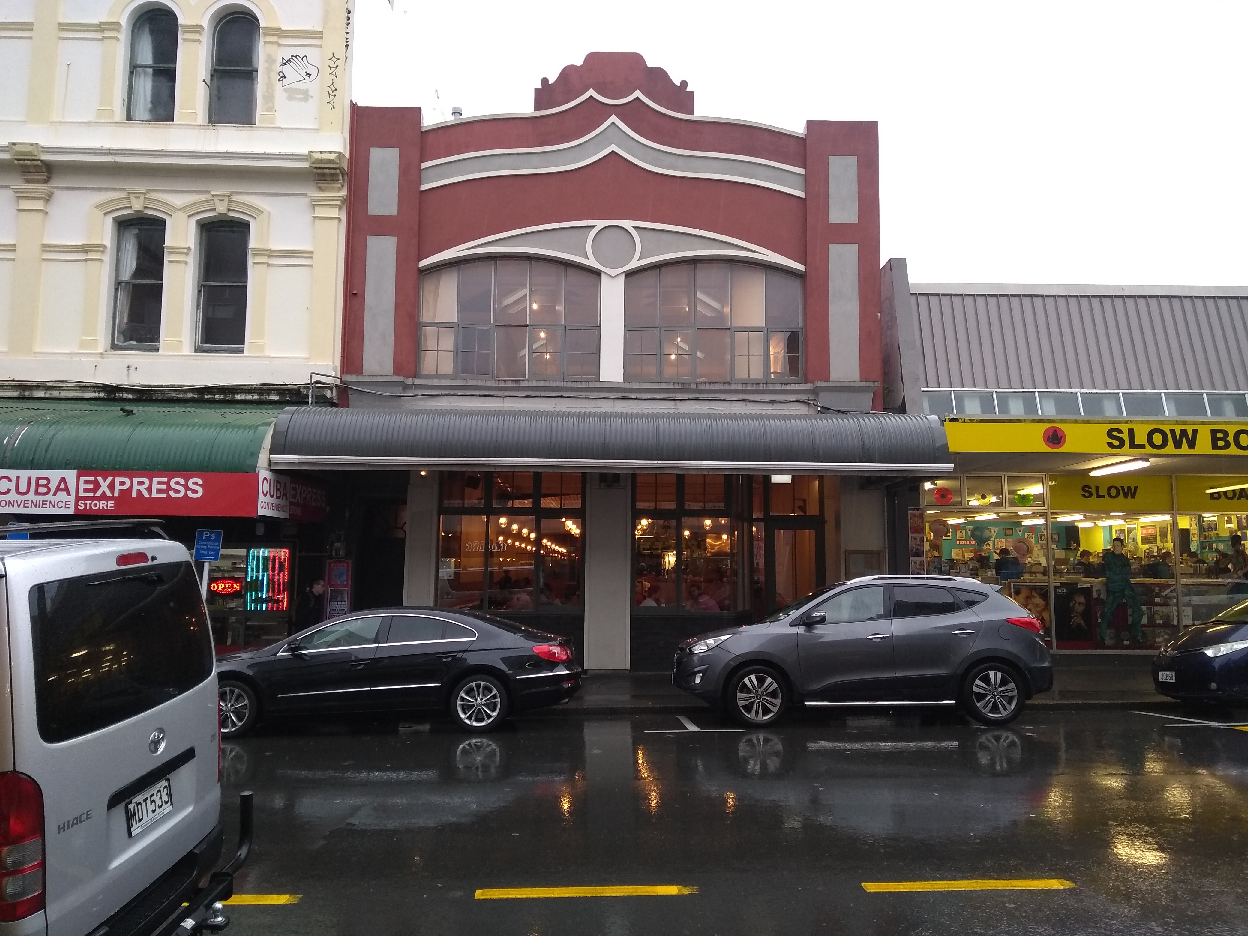 Historic building at 181 Cuba Street, Wellington, New Zealand. Has New Zealand Heritage category 2 listing (list number 5341).